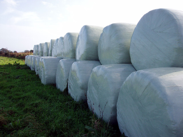 Silage bales. Ready for winter on Break My Neck Farm